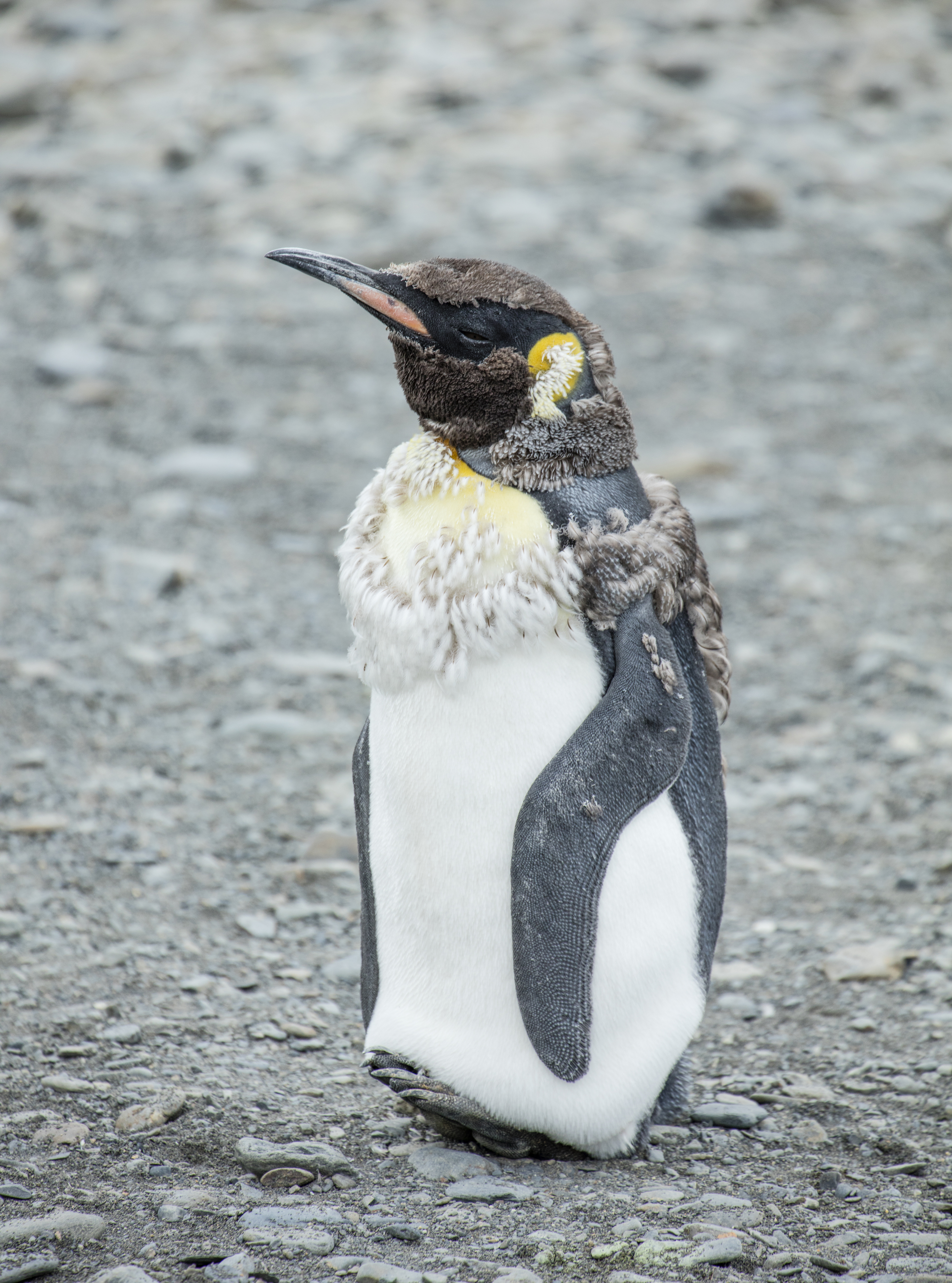 King penguin, Fortuna Bay, South Georgia